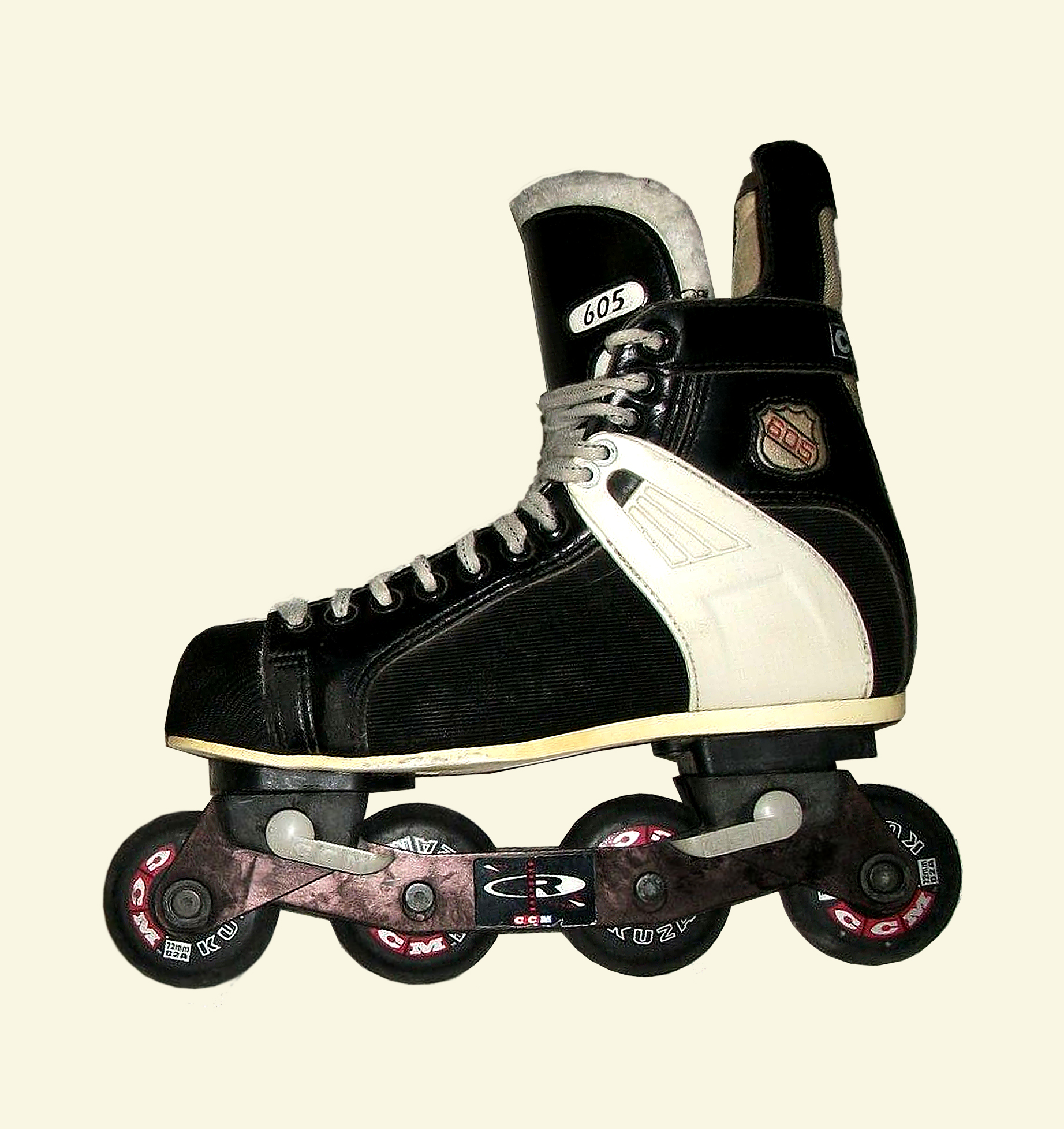 Adjustable inline skate CCM 605